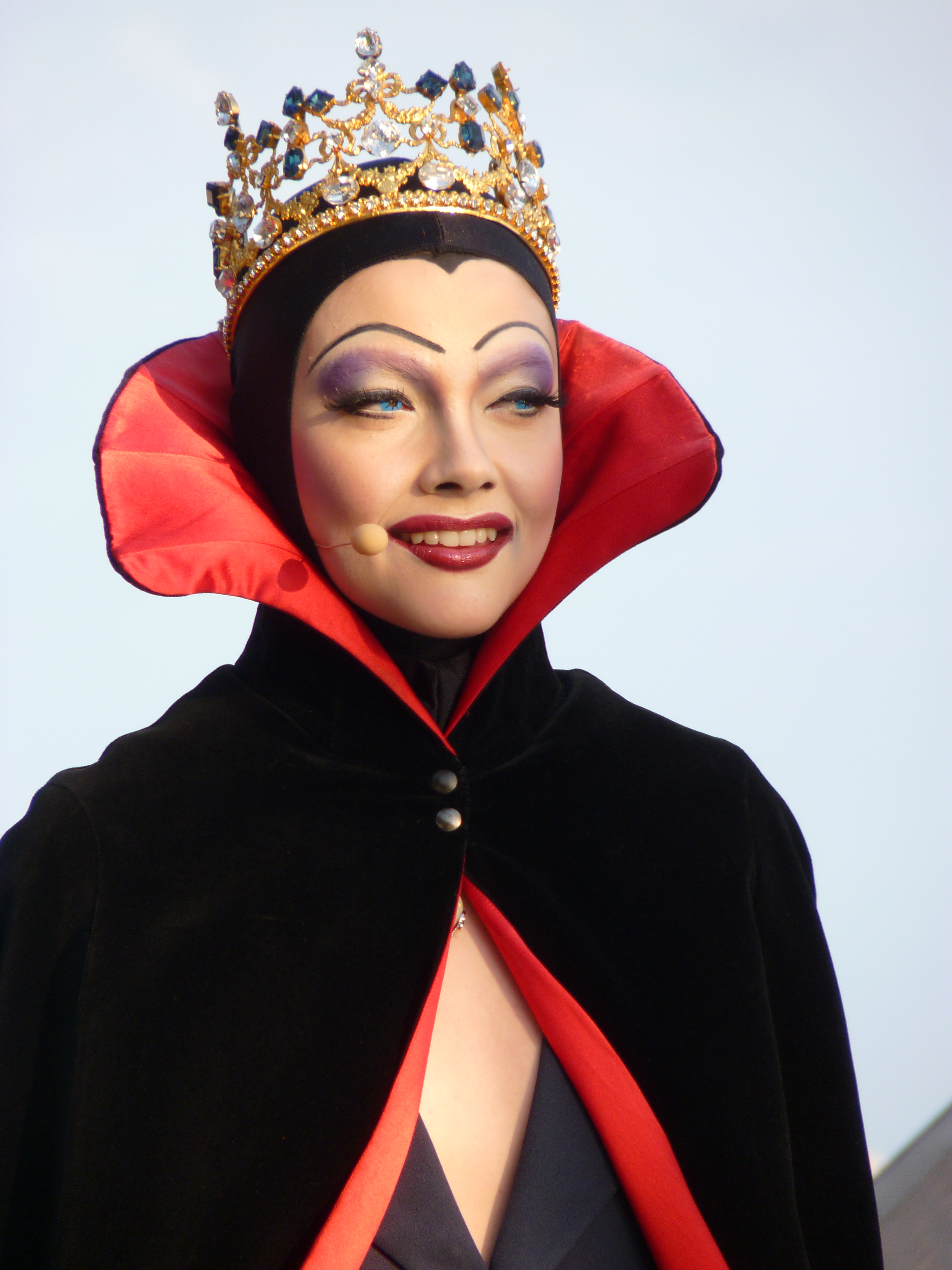 Solweig Rediger-Lizlow disguised like The Queen in Snow White and the Seven Dwarfs at the 2012 Cannes Film Festival.